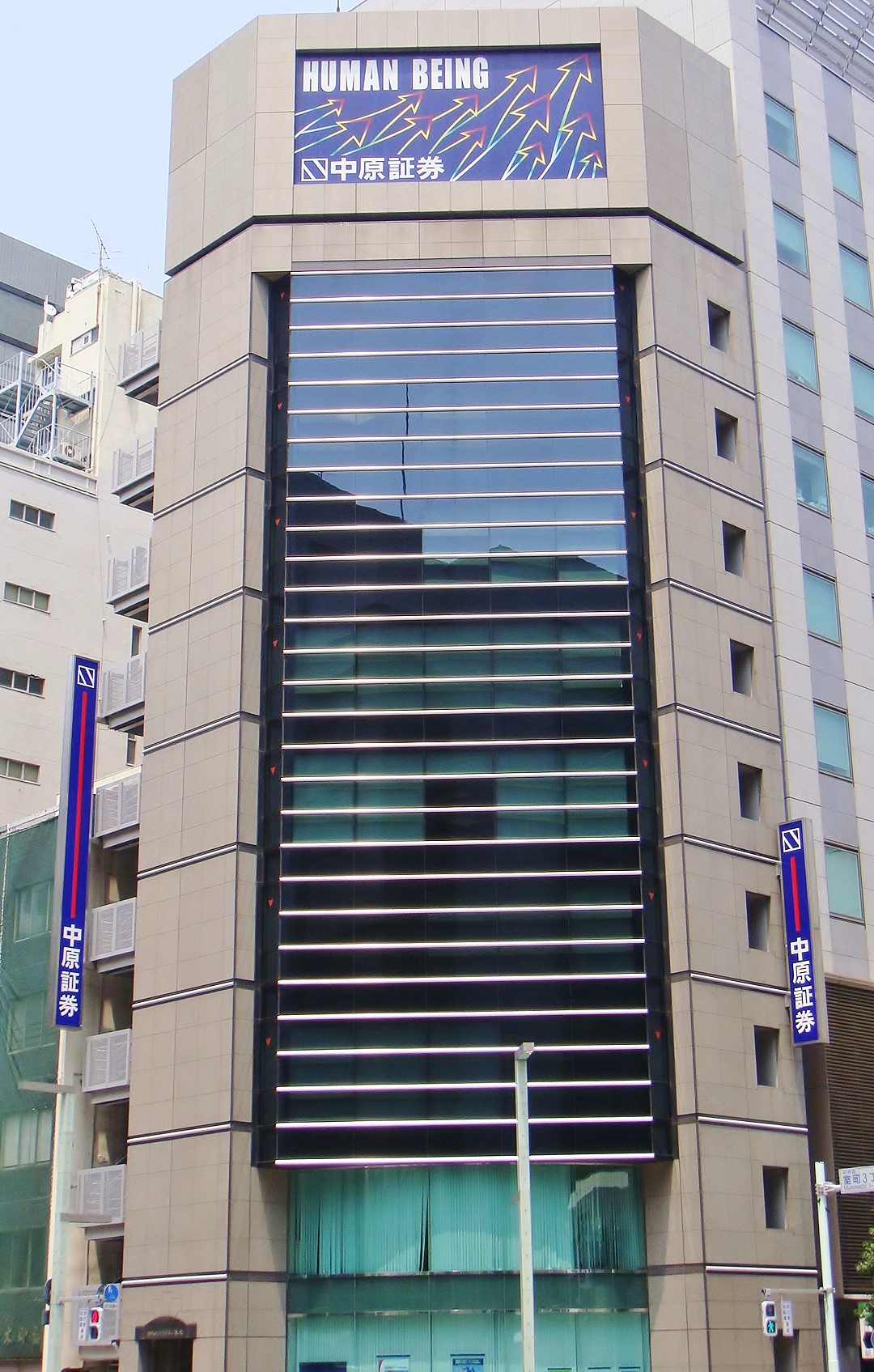 Headquaters of Nakahara Securities, Inc. in Nihonbashi, Tokyo, Japan